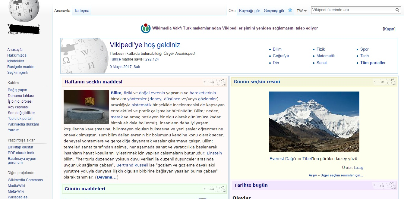 Turkish Wikipedia protest Turkey's censorship